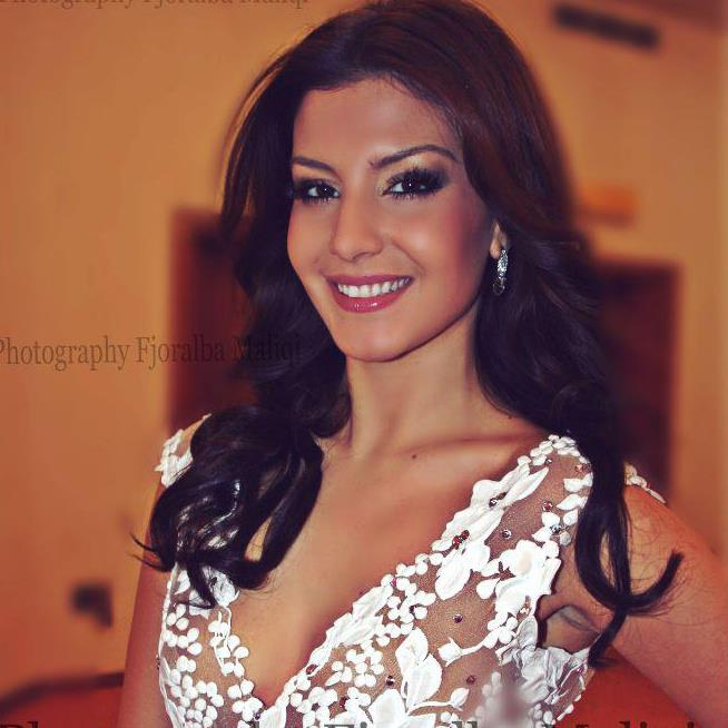 Lolamiss